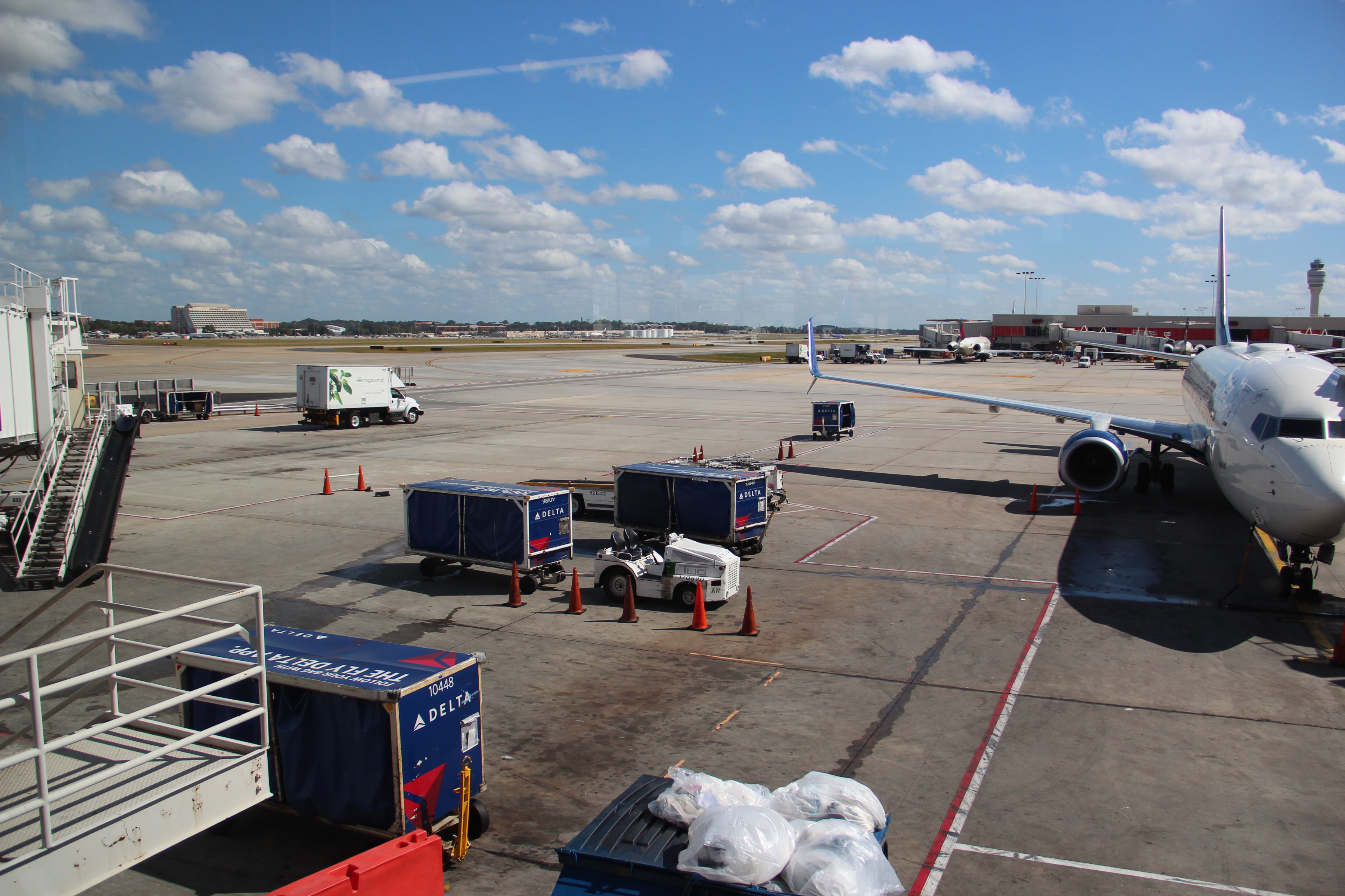 Hartsfield–Jackson Atlanta International Airport gates